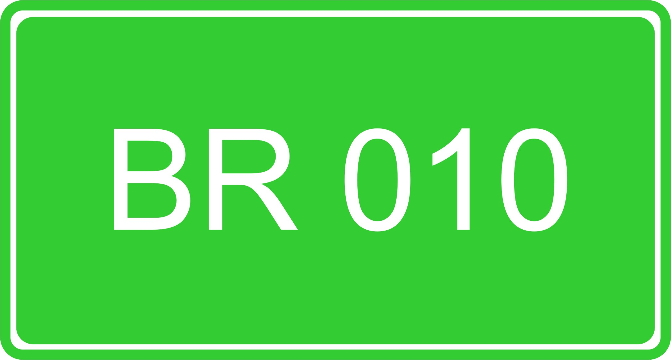 Br-010 Rodovia Highway Signs